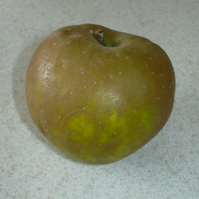 An Egremont Russet apple, on my kitchen worktop. Photo taken and edited by me and originally uploaded to en.wikipedia in 2006.